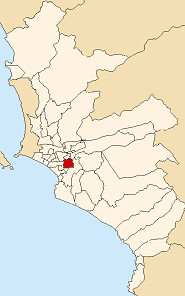 Map of Lima highlighting the San Borja district in Lima.